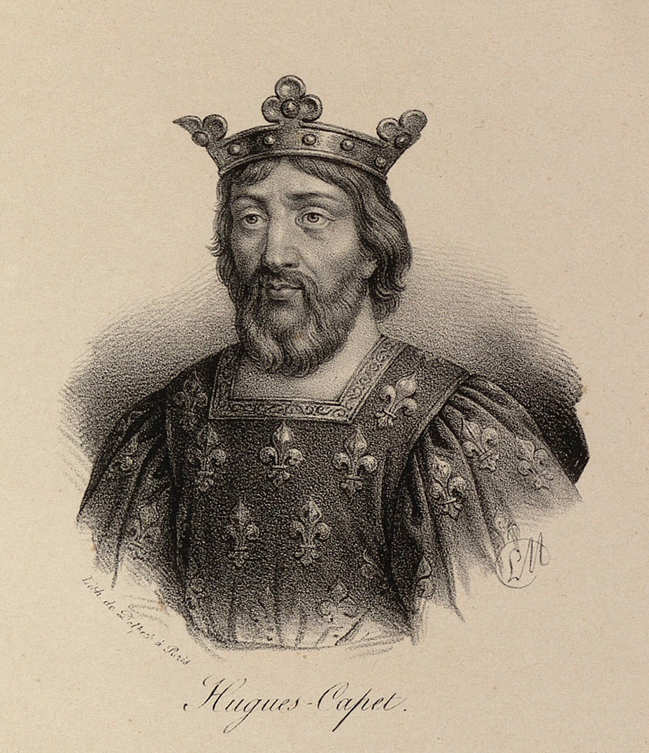 Hugh Capet (c.941-996)